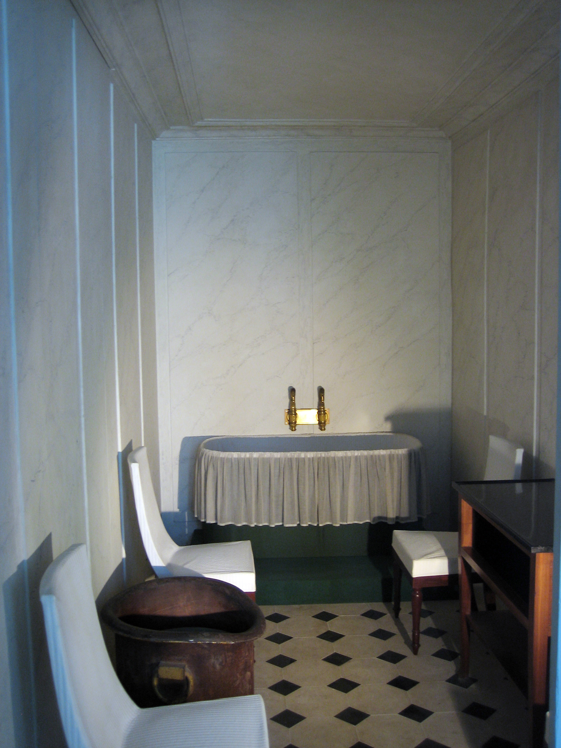 bathroom of the Chateau Fontaineblea